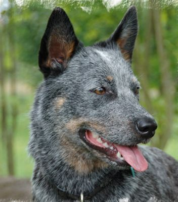 Australian Cattle Dogs (Multi Ch. Silveraurora's Super Mask + Ch.MK Avednigo)